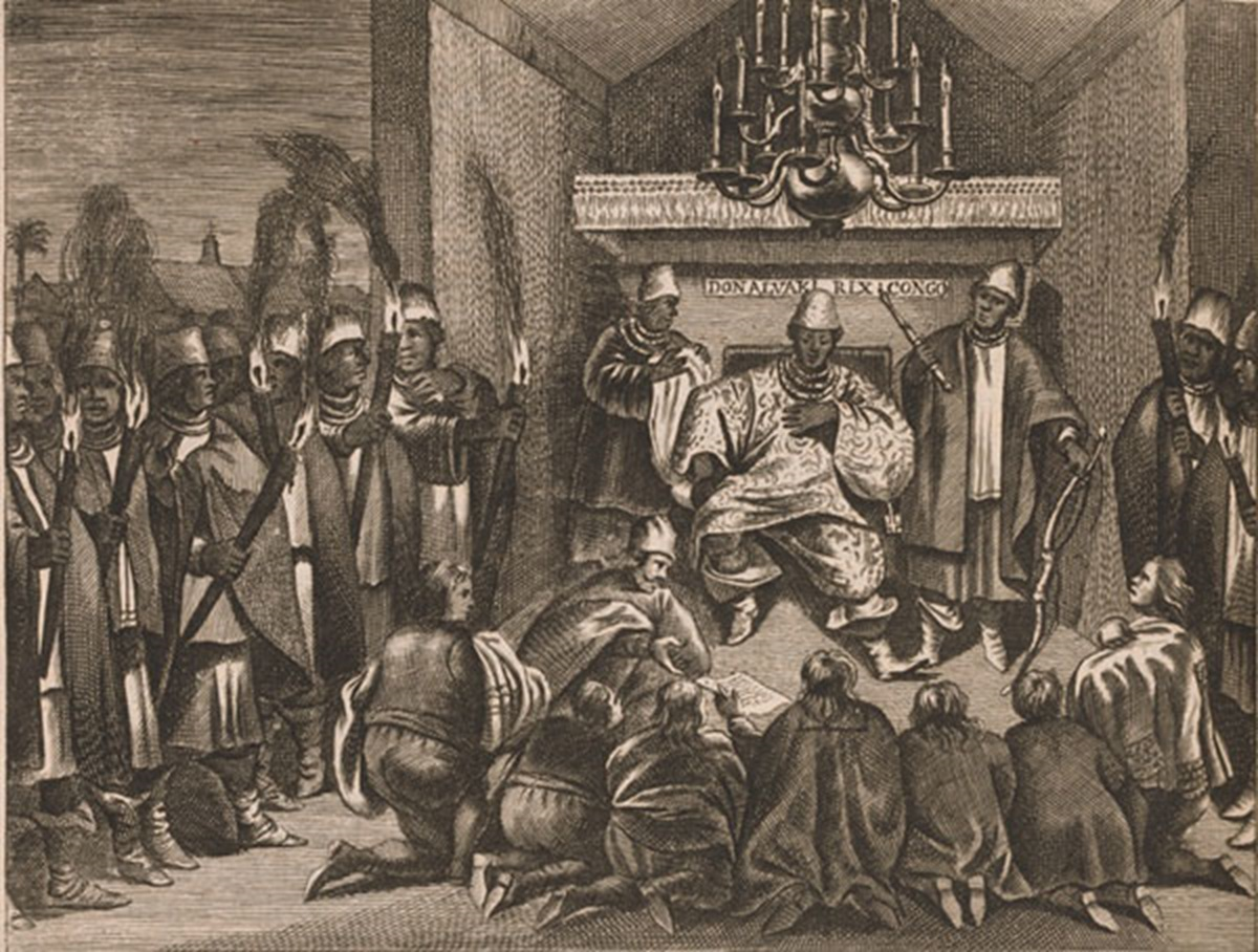 Olfert Dapper (Dutch, 1635–1689). Dutch Ambassadors at the Court of Garcia II, King of Kongo. Engraving from Naukeurige Beschrijvinge der Afrikaensche gewesten, 1668